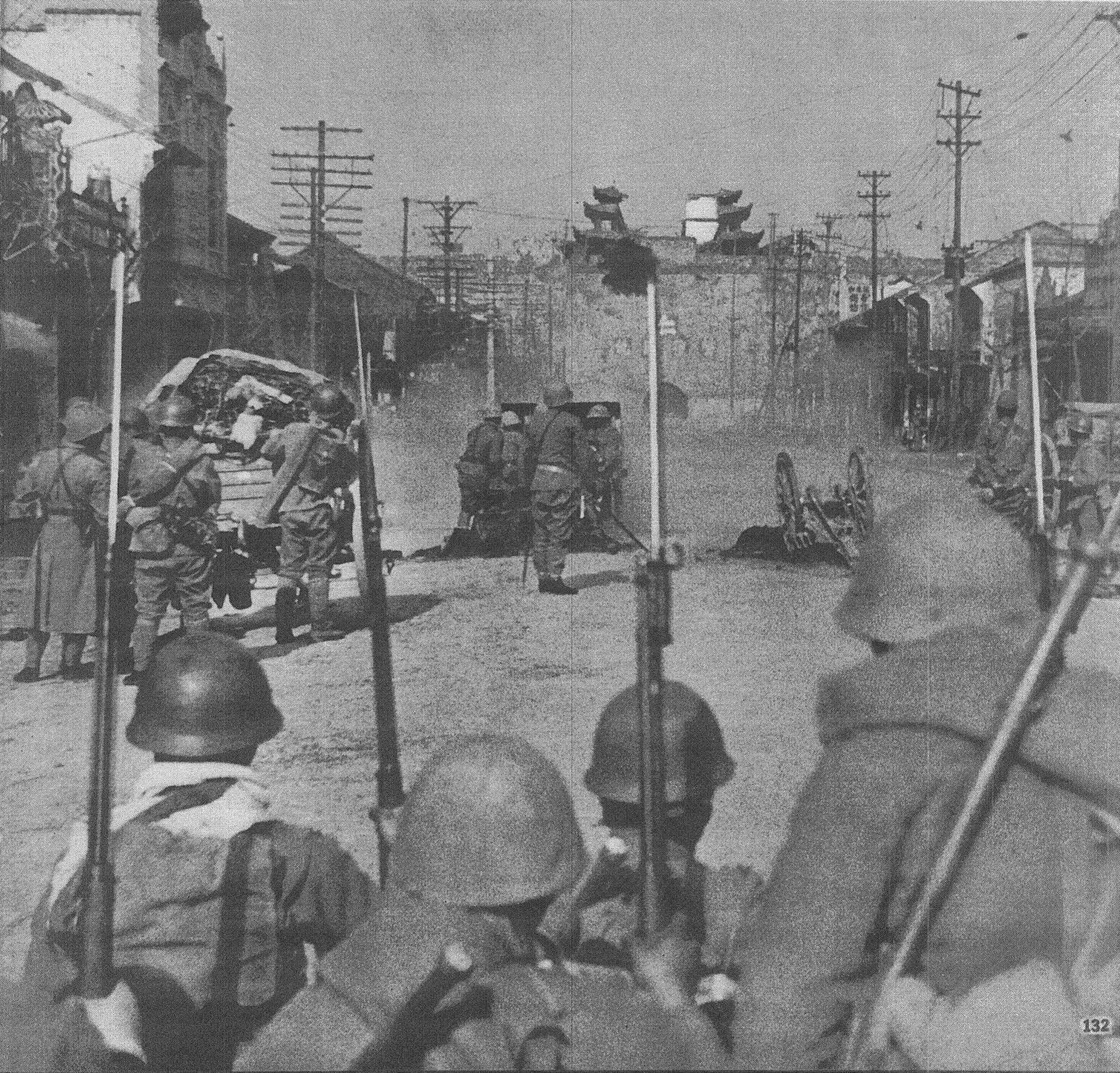 The field gun position is 50m to the Gate of China. The troops of the front side are waiting to burst into the gate.(Dec. 12, 1937)